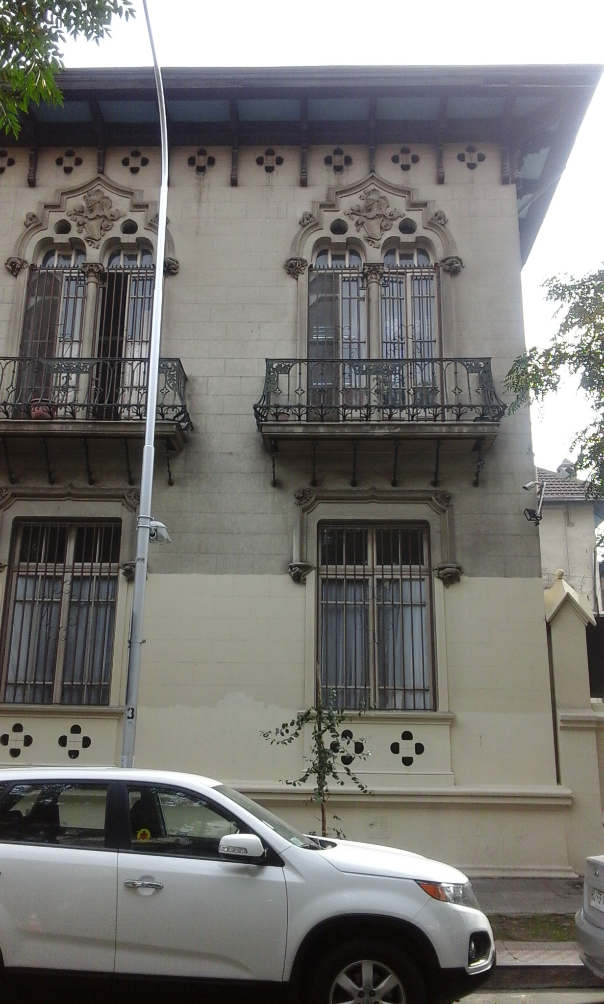 La visualización del Palacio Letelier desde la calle Erasmo Escala.